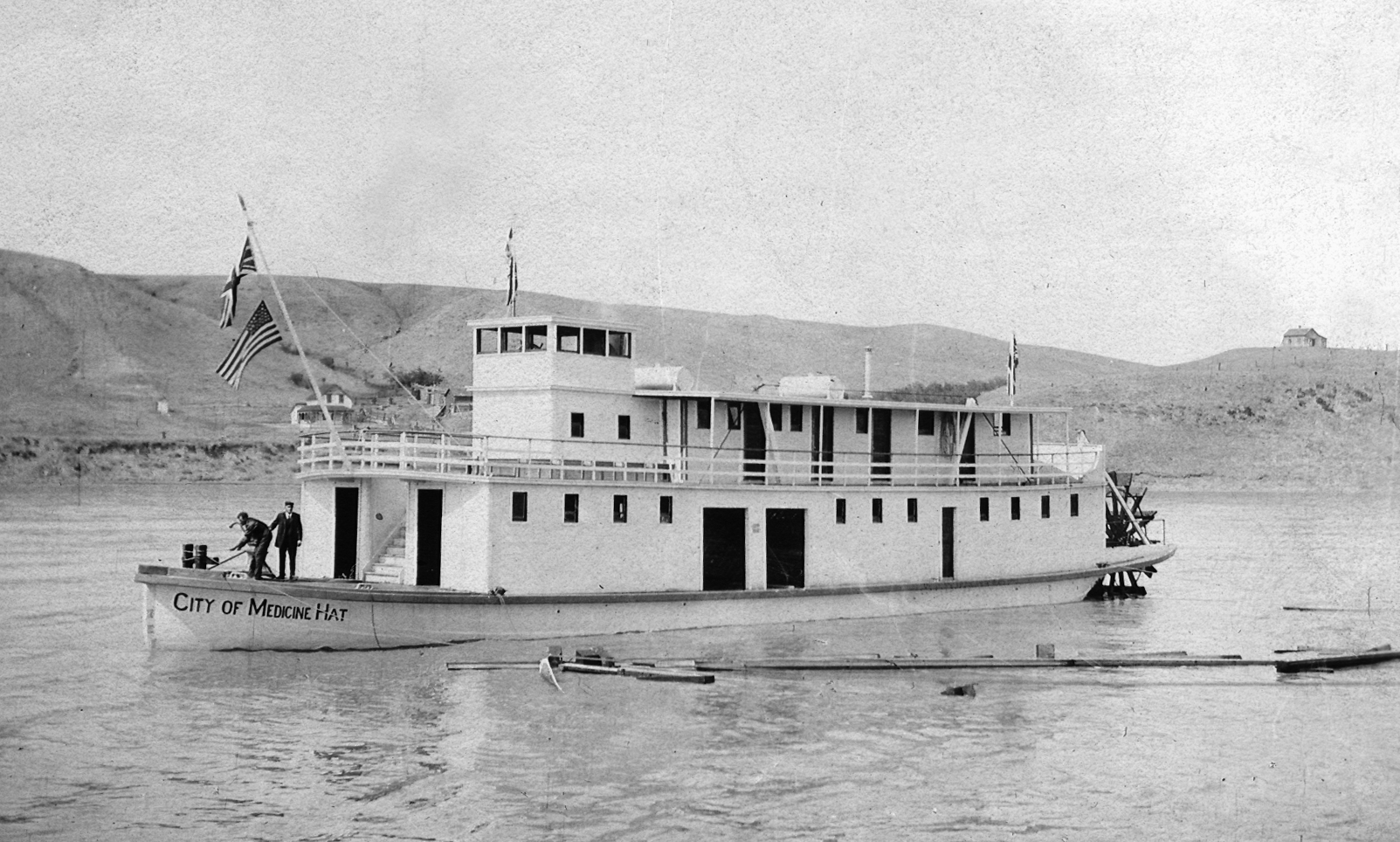 Steam Ship 'City of Medicine Hat' c1907